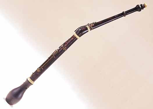 Oboe da caccia